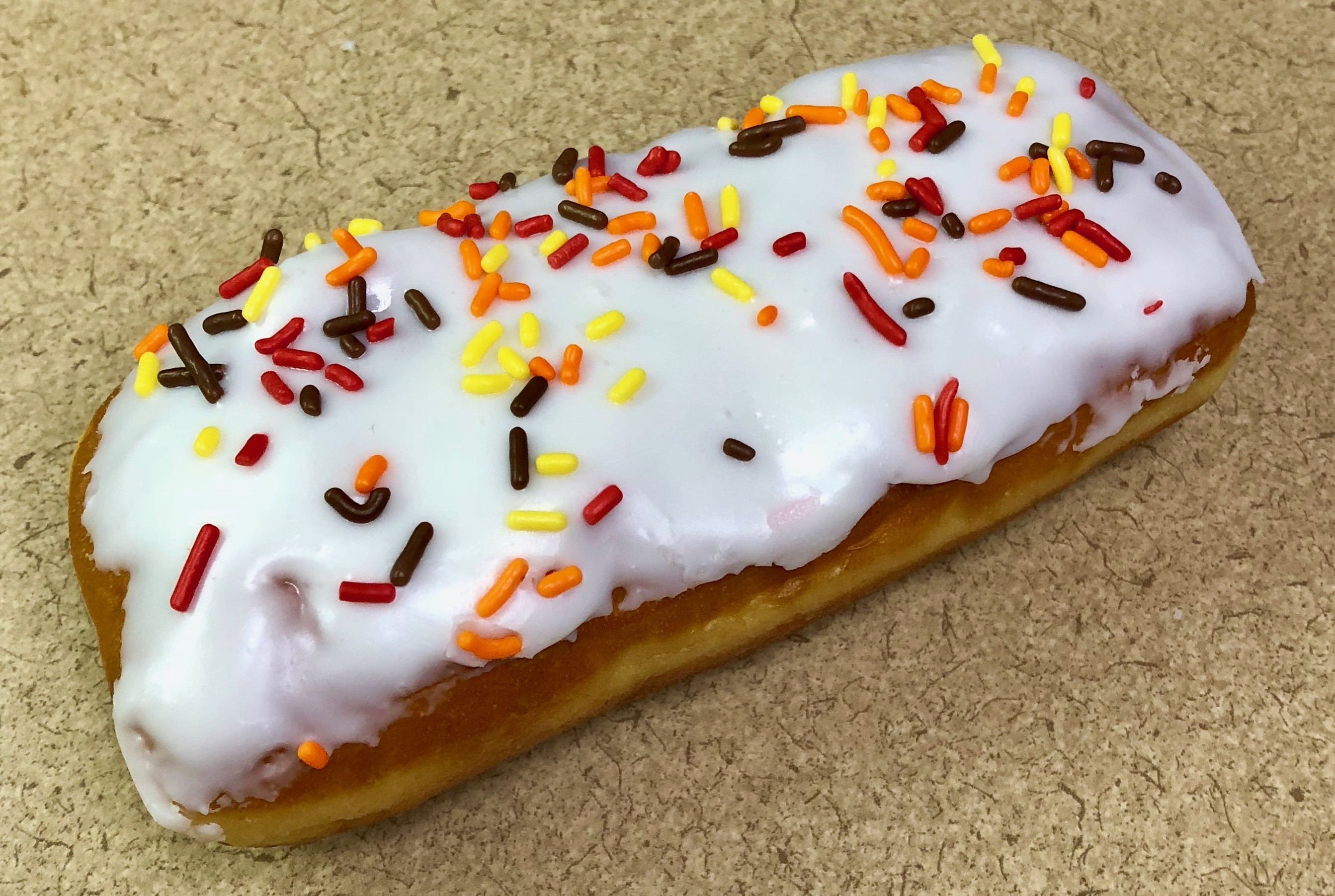 A Long John (doughnut) from Cub Foods in Lakeville, Minnesota.